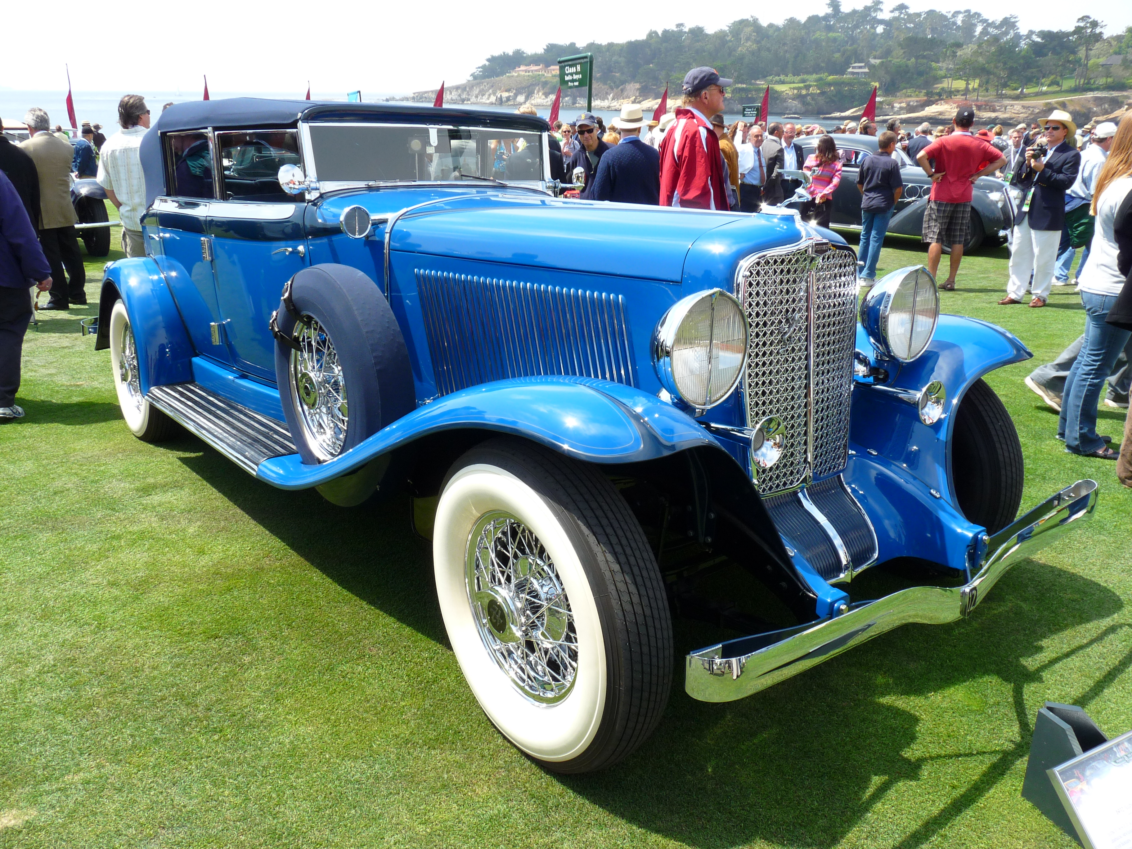 1932 Auburn V12 Convertible Phaeton